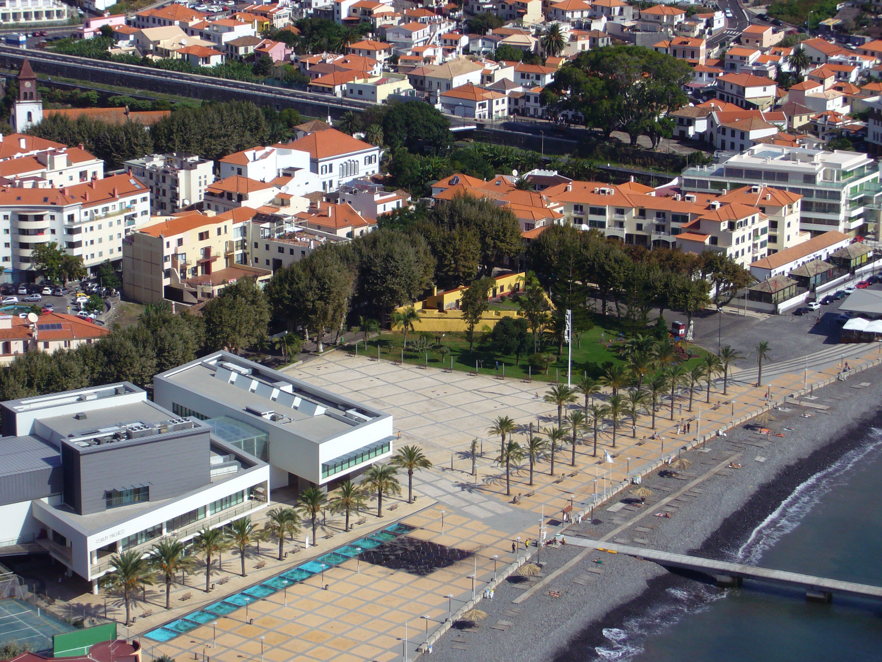 Forte do Amparo-Machico (Madeira)